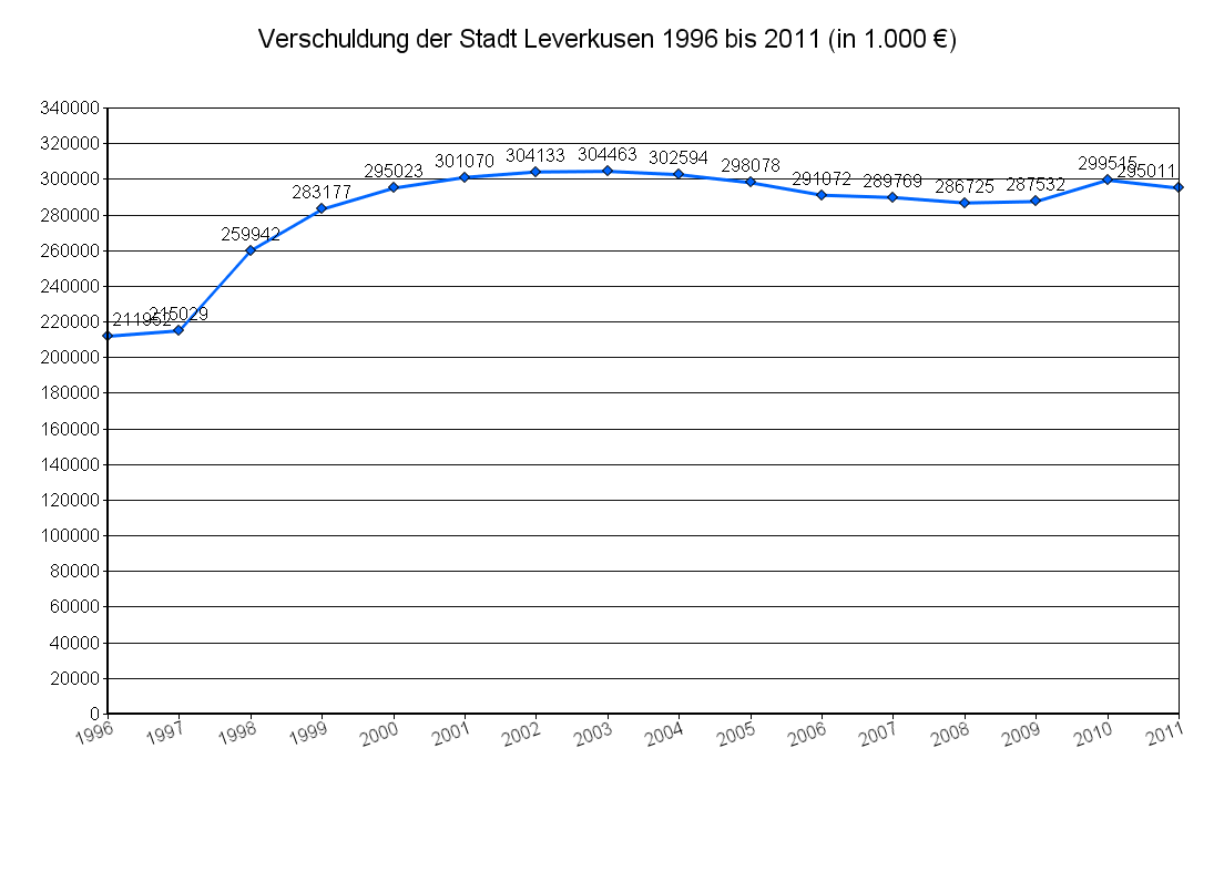 Debts of the City Leverkusen from 1996 to 2011